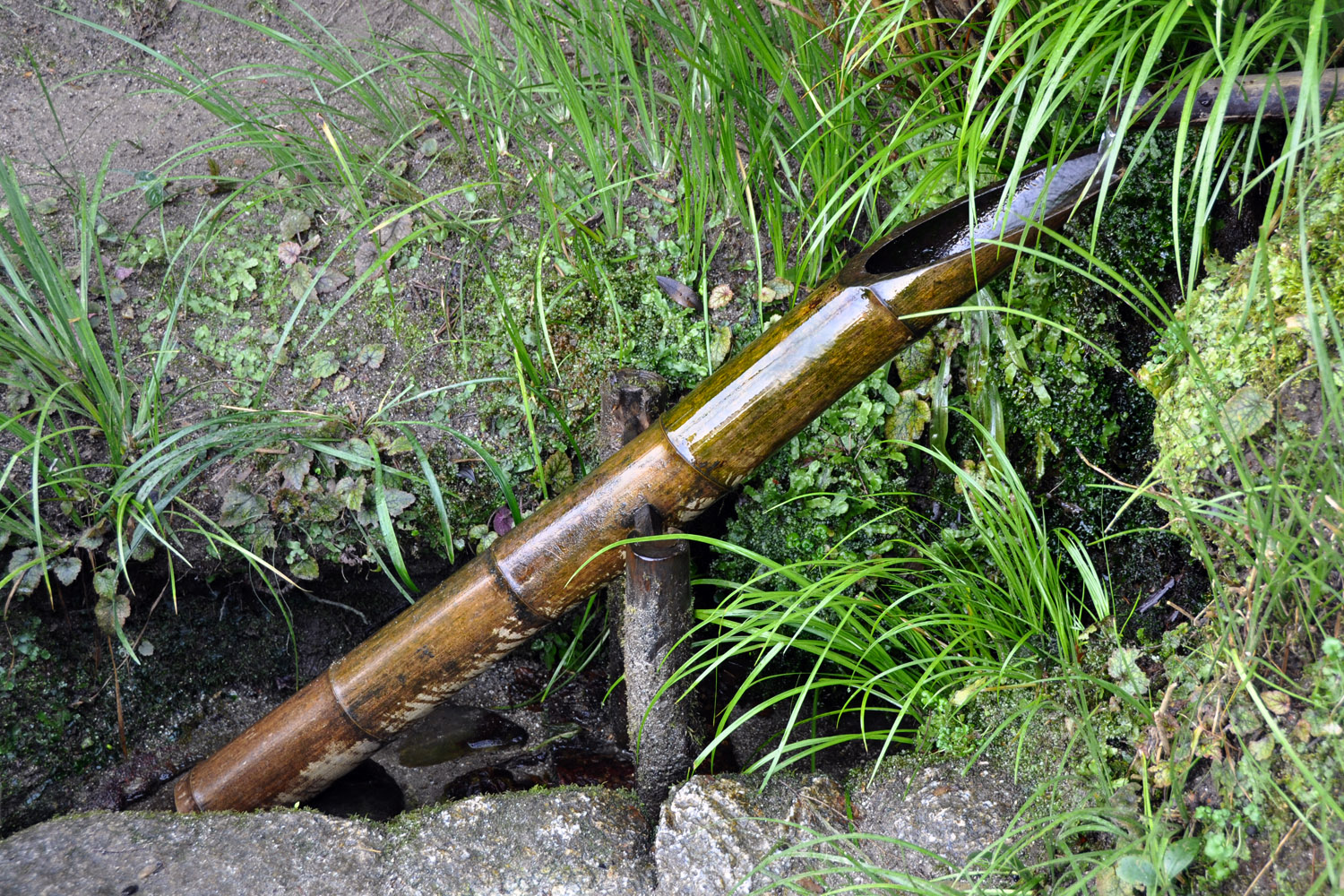 Shishi odoshi (ししおどし, 鹿威し) or sōzu (souzu, sozu, そうず, 添水) in the garden at Shisen-dō, a Buddhist temple in Kyoto, Japan.